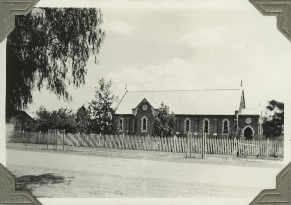 Church of England, Dalby, ca. 1935. Photographs have been taken from an album donated by Allan Queale. The photographs focus on the town of Dalby which is located on the Darling Downs, approximately 220 kms west of Brisbane, on the Warrego Highway. Myall Creek, a tributary of the Condamine River, runs through the town. Although the area is known as Queensland's wheat centre, other forms of farming include a thriving cotton industry, which spreads from Dalby, south to Goondiwindi and west across to St George.